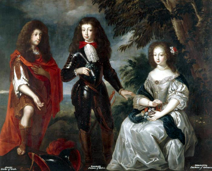 James, Duke of York, Charles, Prince of Wales and Henrietta, Duchess of Orléans in a group portrait